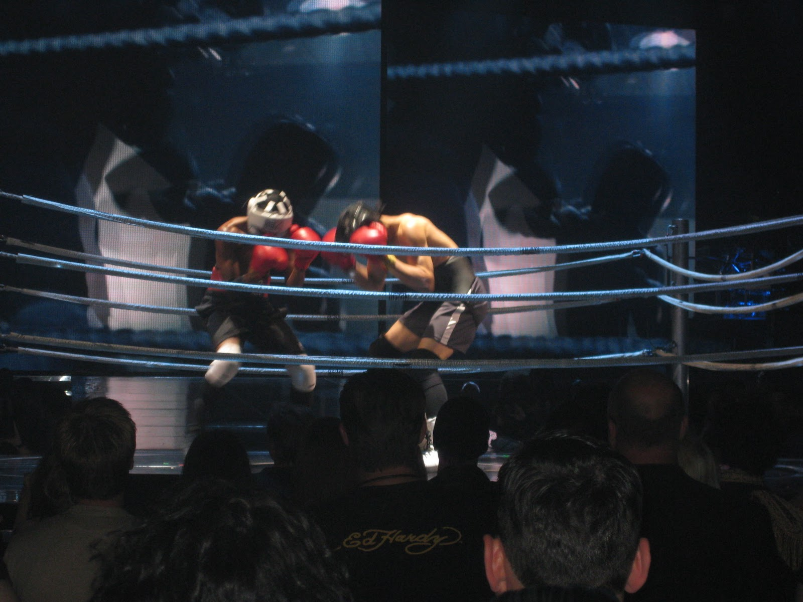 Picture taken by my mother during the Madonna concert we attended in NY back in 2008